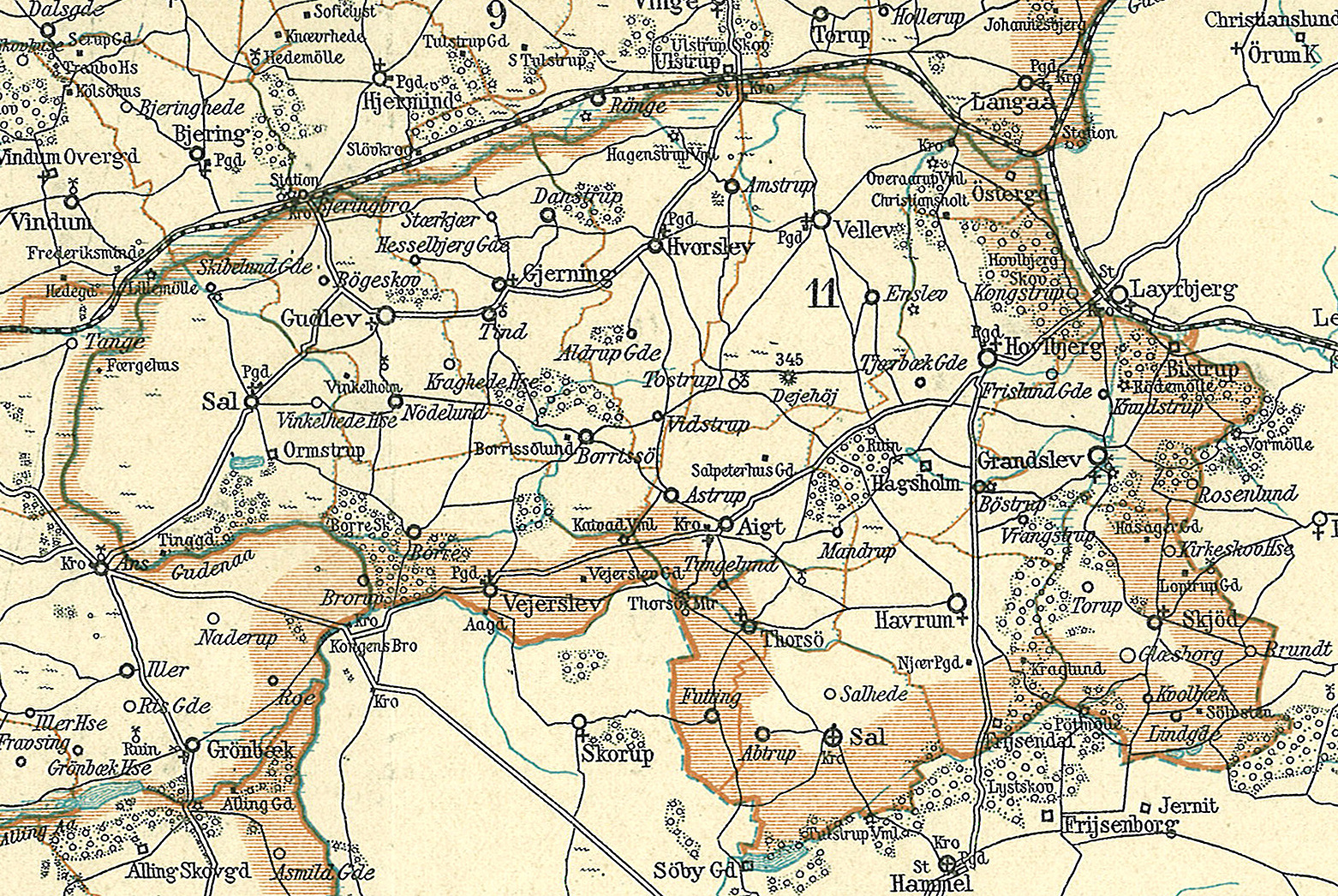 Map Houlbjerg Herred in the eastern part of Viborg County in Denmark